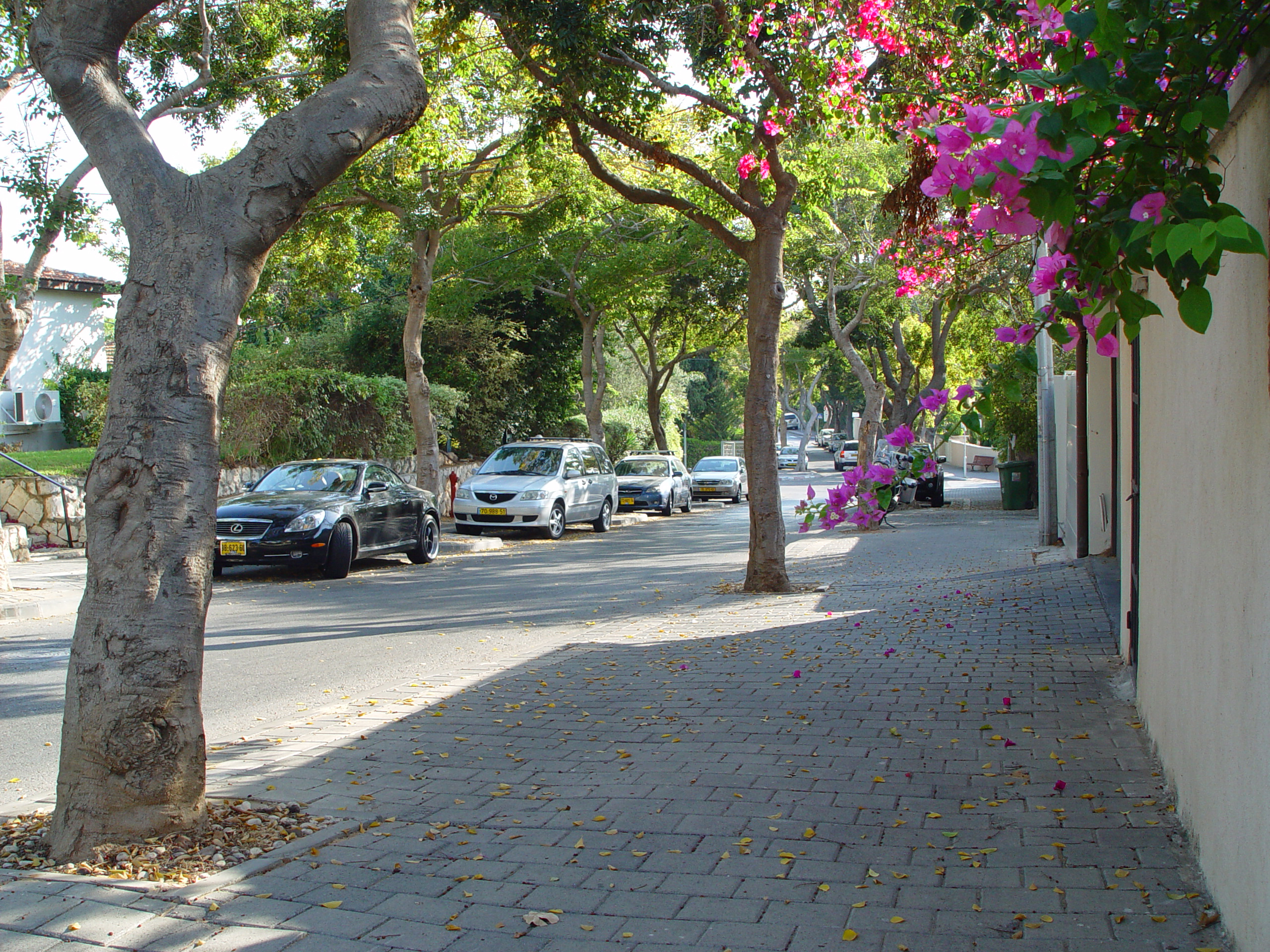 A street in Zahala, Israel